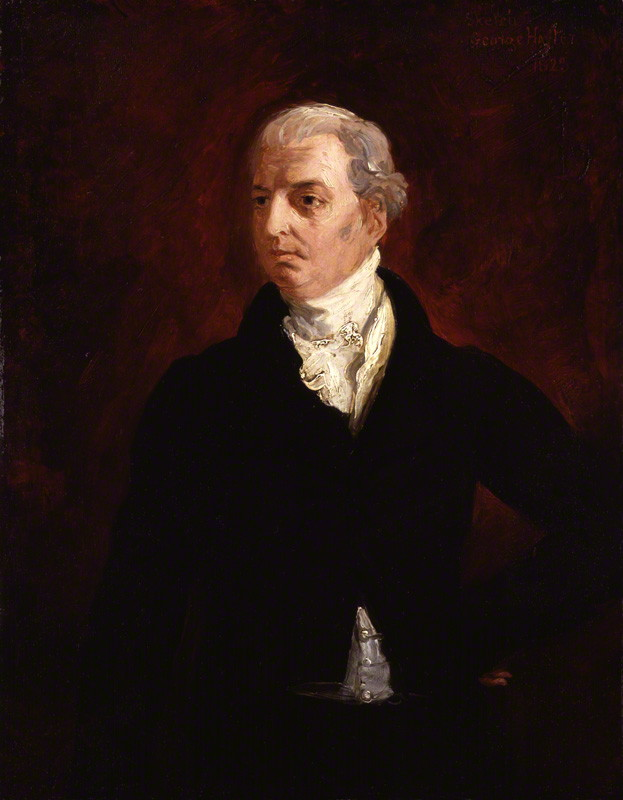 Robert Jenkinson, 2nd Earl of Liverpool (1770-1828)